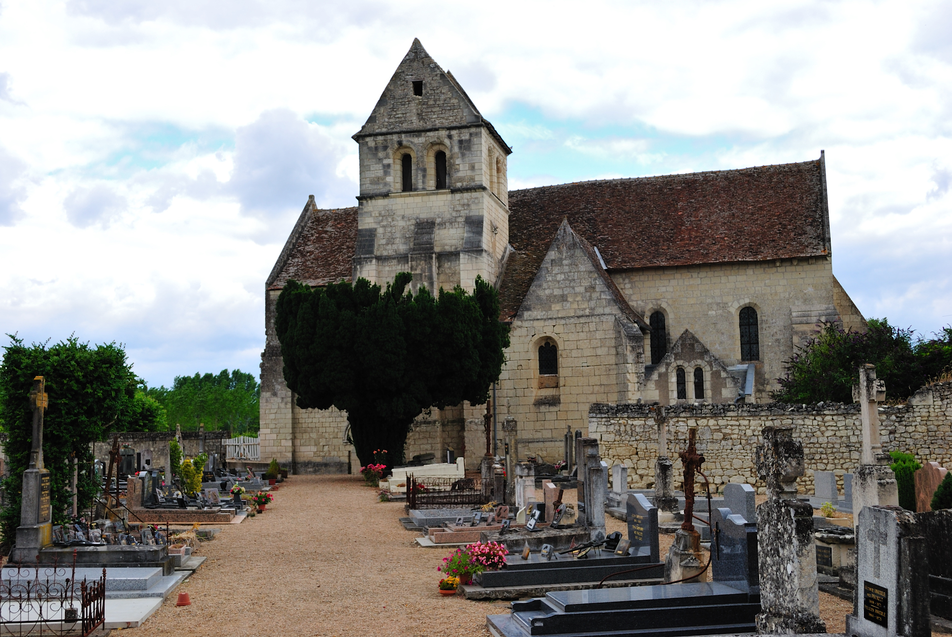 Church of Saint Hillary at the village of Sazilly near l'Île Bouchard, department Indre et Loire, France. Nikon D60 f=26mm f/6.3 at 1/160s ISO 100. Colour corrected using Nikon ViewNX 1.3.0.